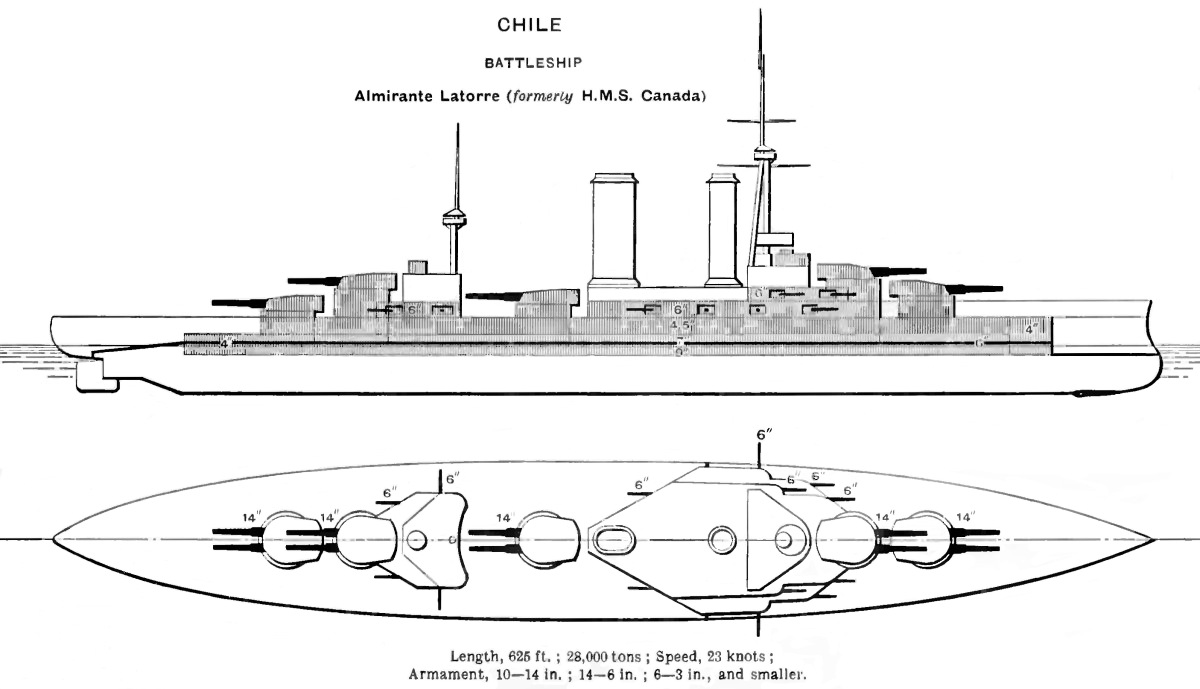 Right elevation and deck plan diagrams depicting Chilean battleship Almirante Latorre.